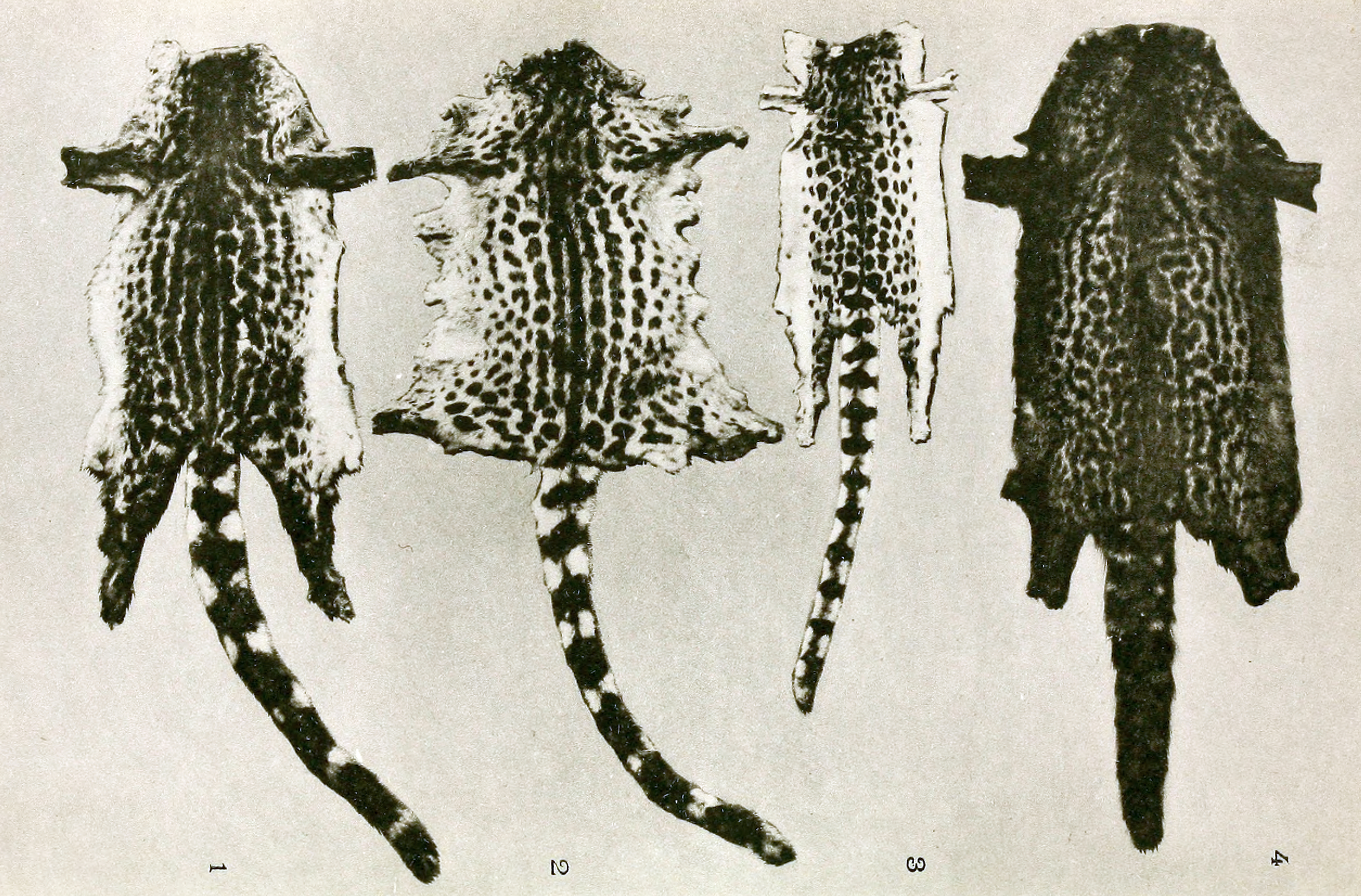 Genet pelts from Liberia. Left to right: 1, 2: Johnston's Genet 3: Leighton's Linsang 4: King Genet